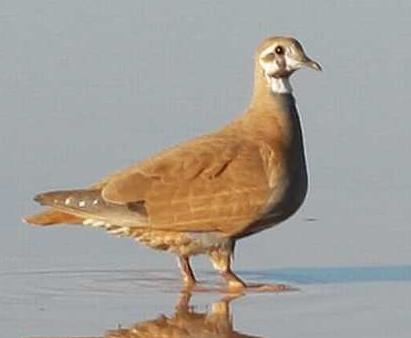 Phaps histrionica (Gould, 1841) Flock Bronzewing – arid zone endemic